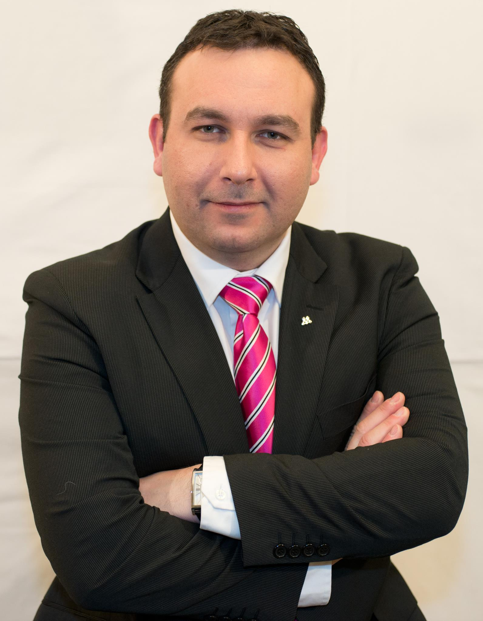 Picture of Jimmy Baker, moderate politician, Botkyrka municipality, 2013.